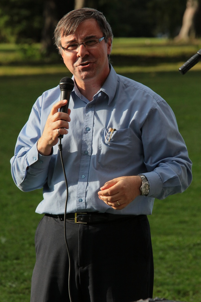 Anthony Vannelli